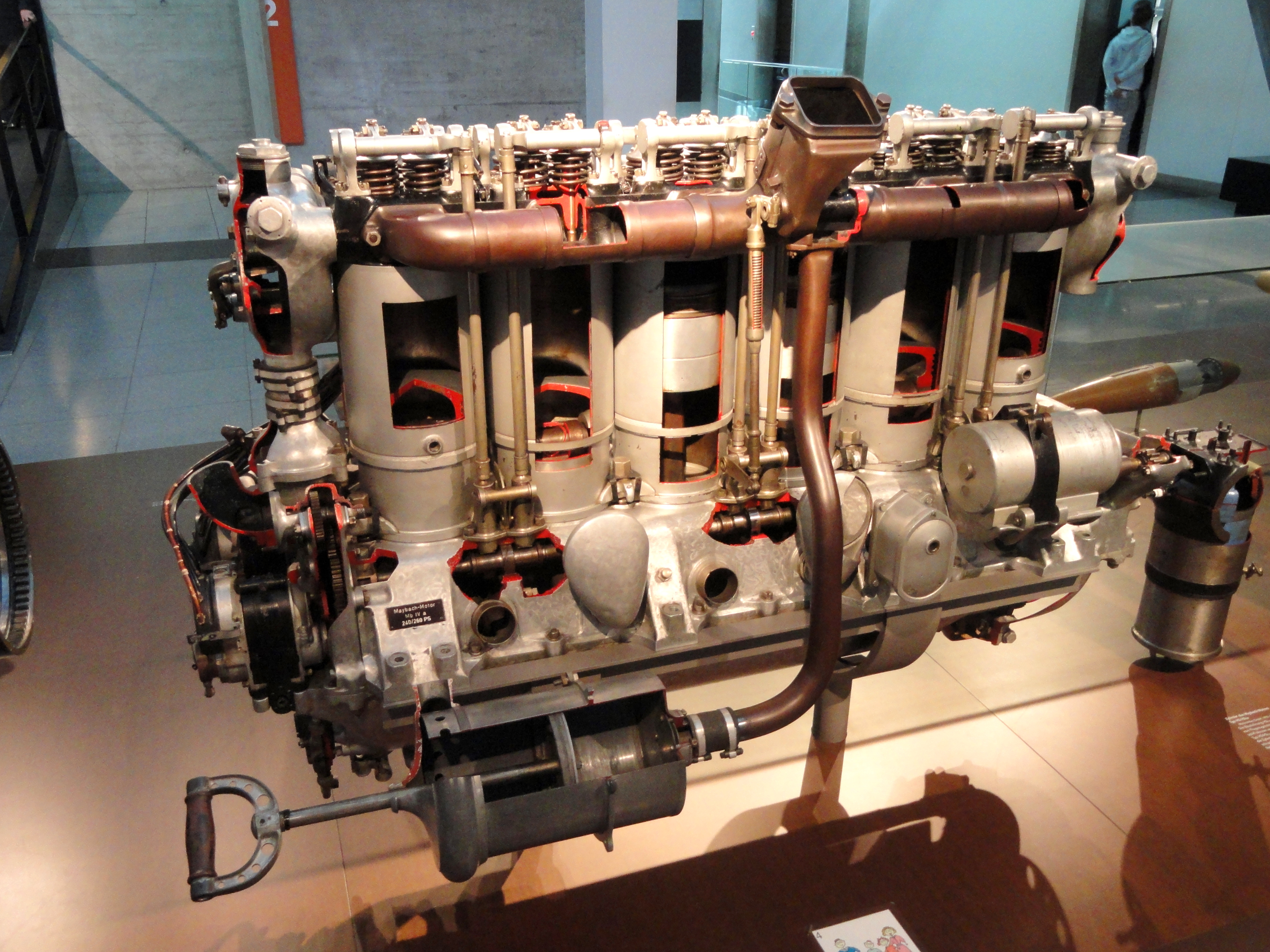 Maybach-Motor Mb IVa. Exhibit in the Zeppelin Museum Friedrichshafen, Seestraße 22, Friedrichshafen, Germany. Photography was permitted in the museum, without restriction.